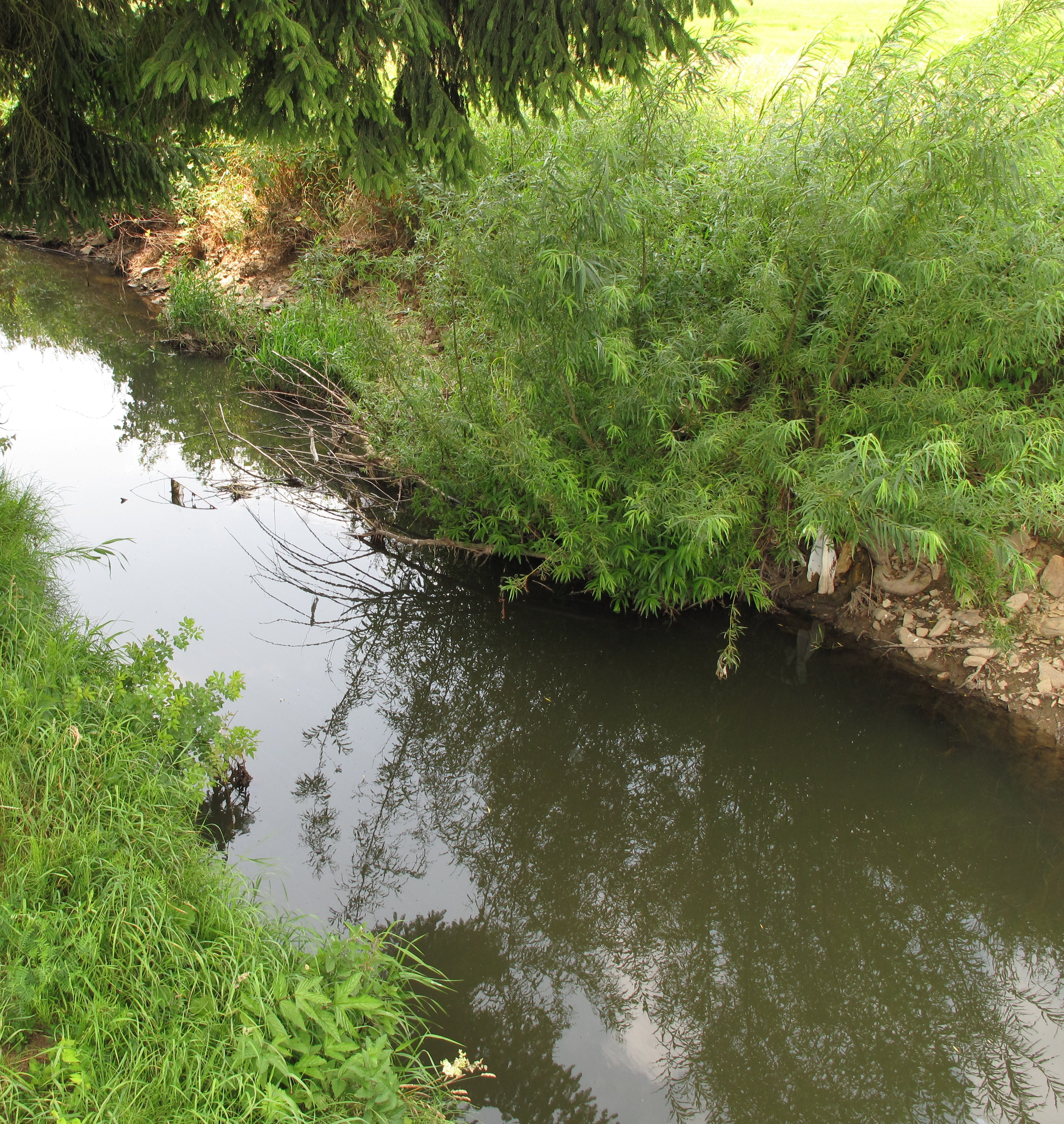 Voldušský potok (stream), Rokycany District, Czech Republic.